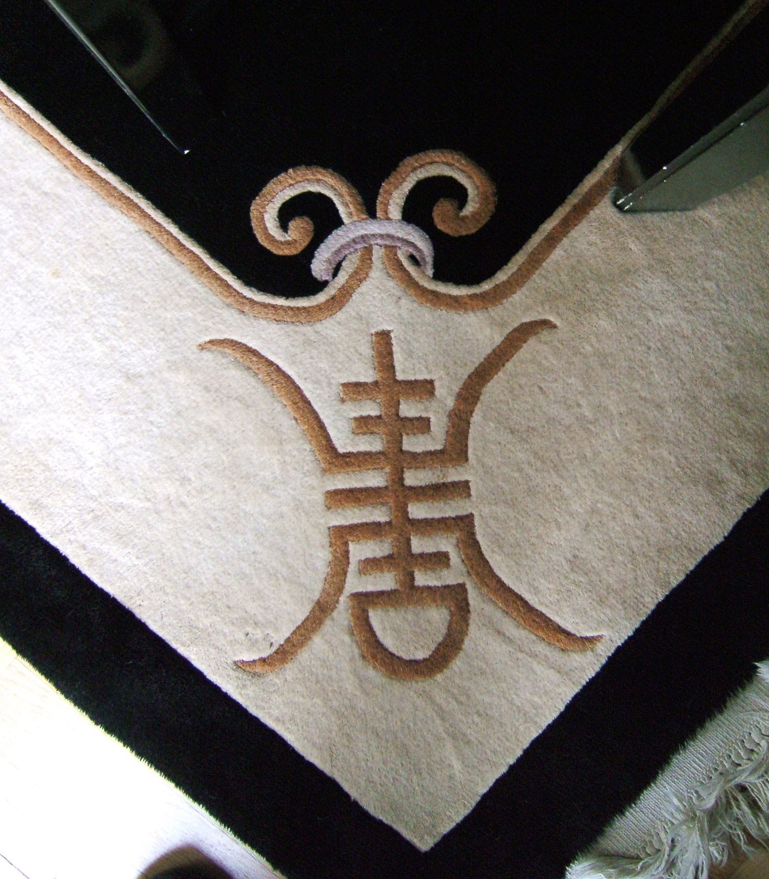 The Chinese character for longevity (shou) decorates the four corners of this modern Chinese wool carpet.